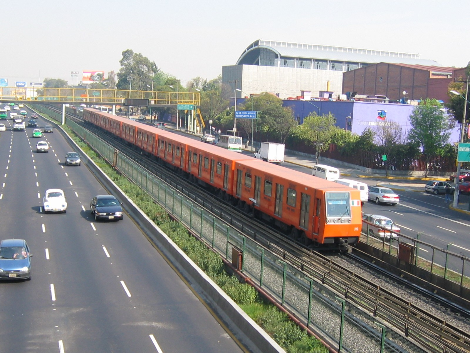 Mexico City Metro, A Linea 2 Mexico City metro train on a surface track near the General Anaya station on Calzada de Tlalpan